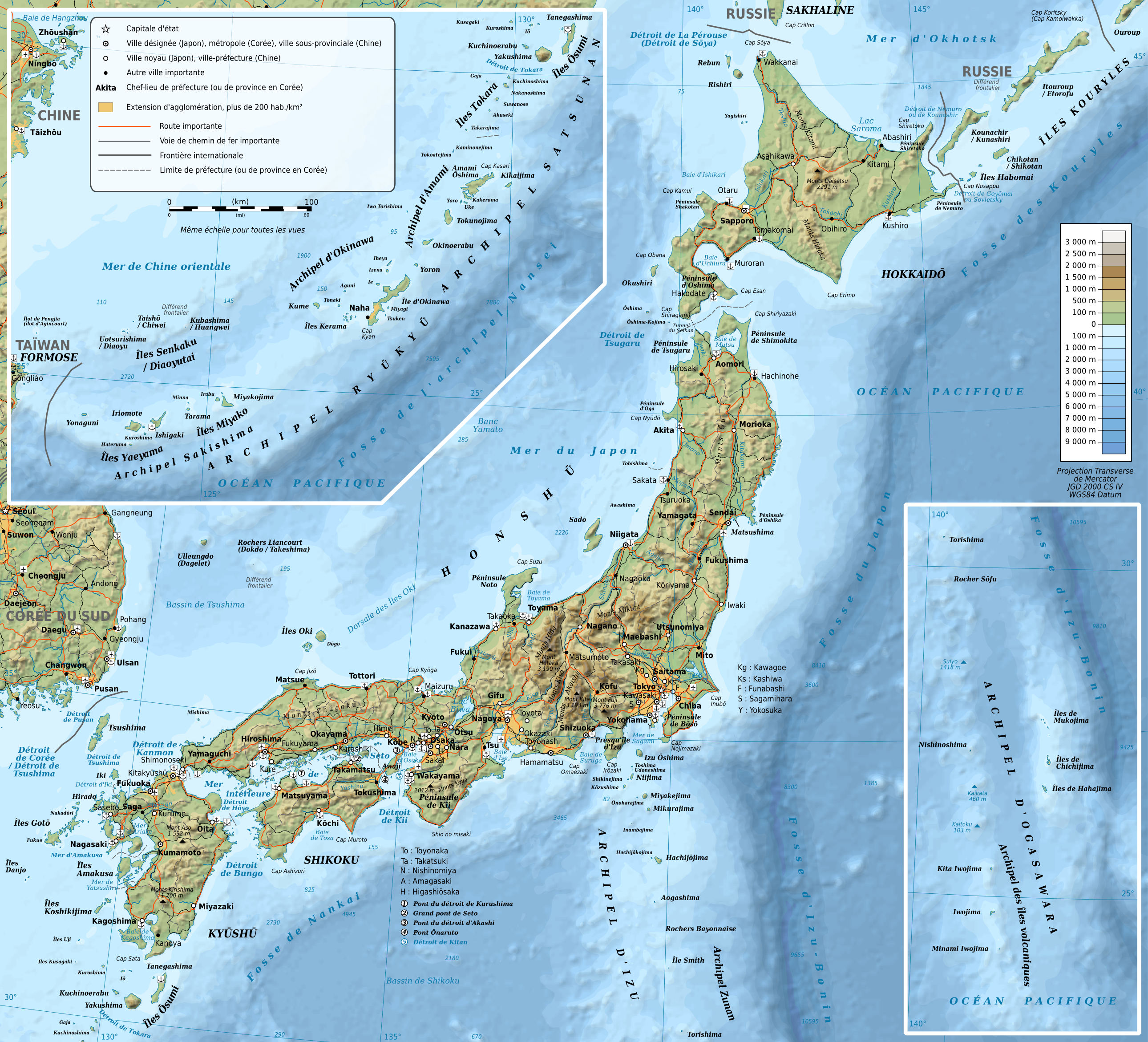 Topographic and administrative map in French language of Japan.